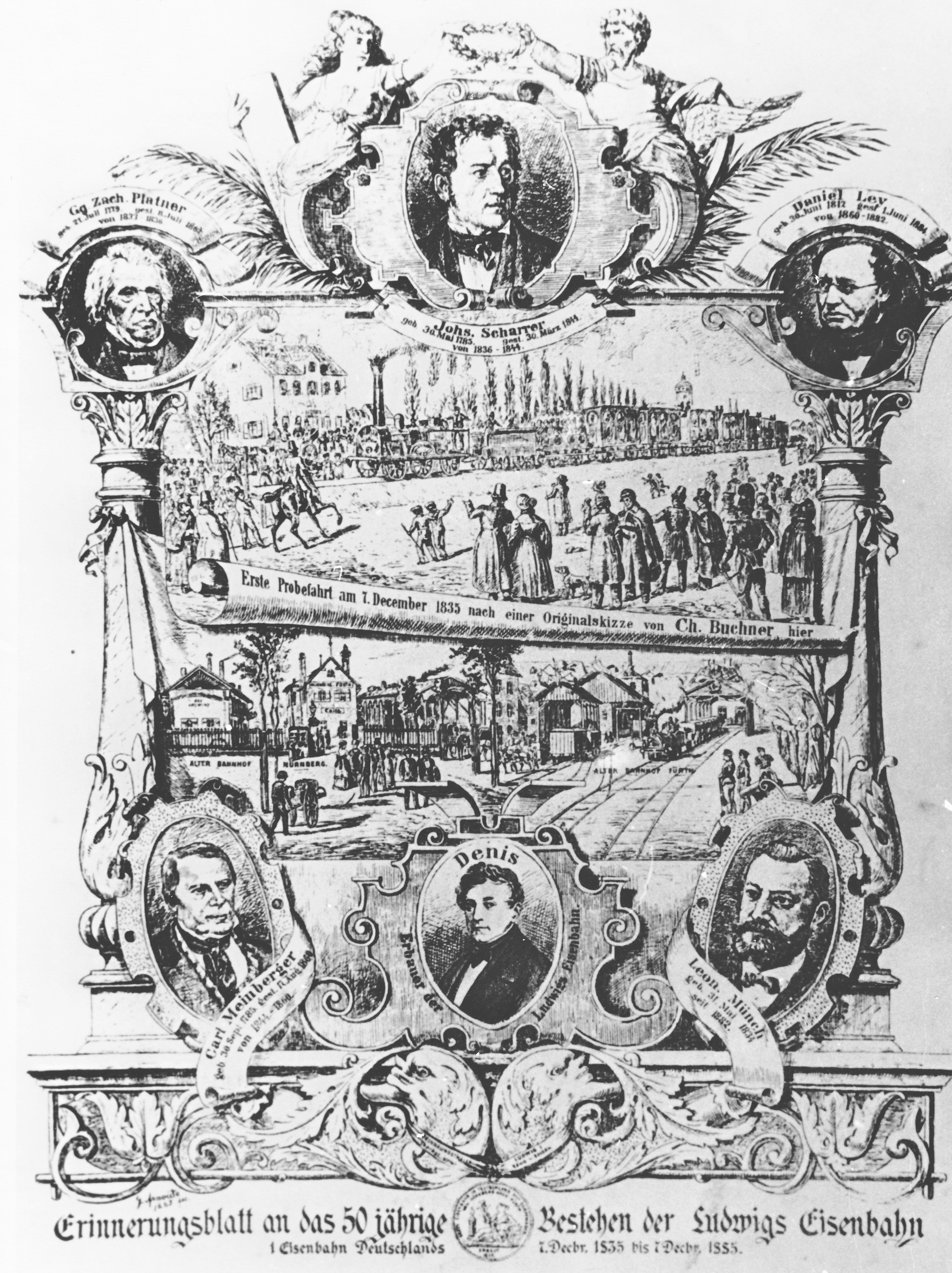 Danl_Ley_Erinnerungsblatt